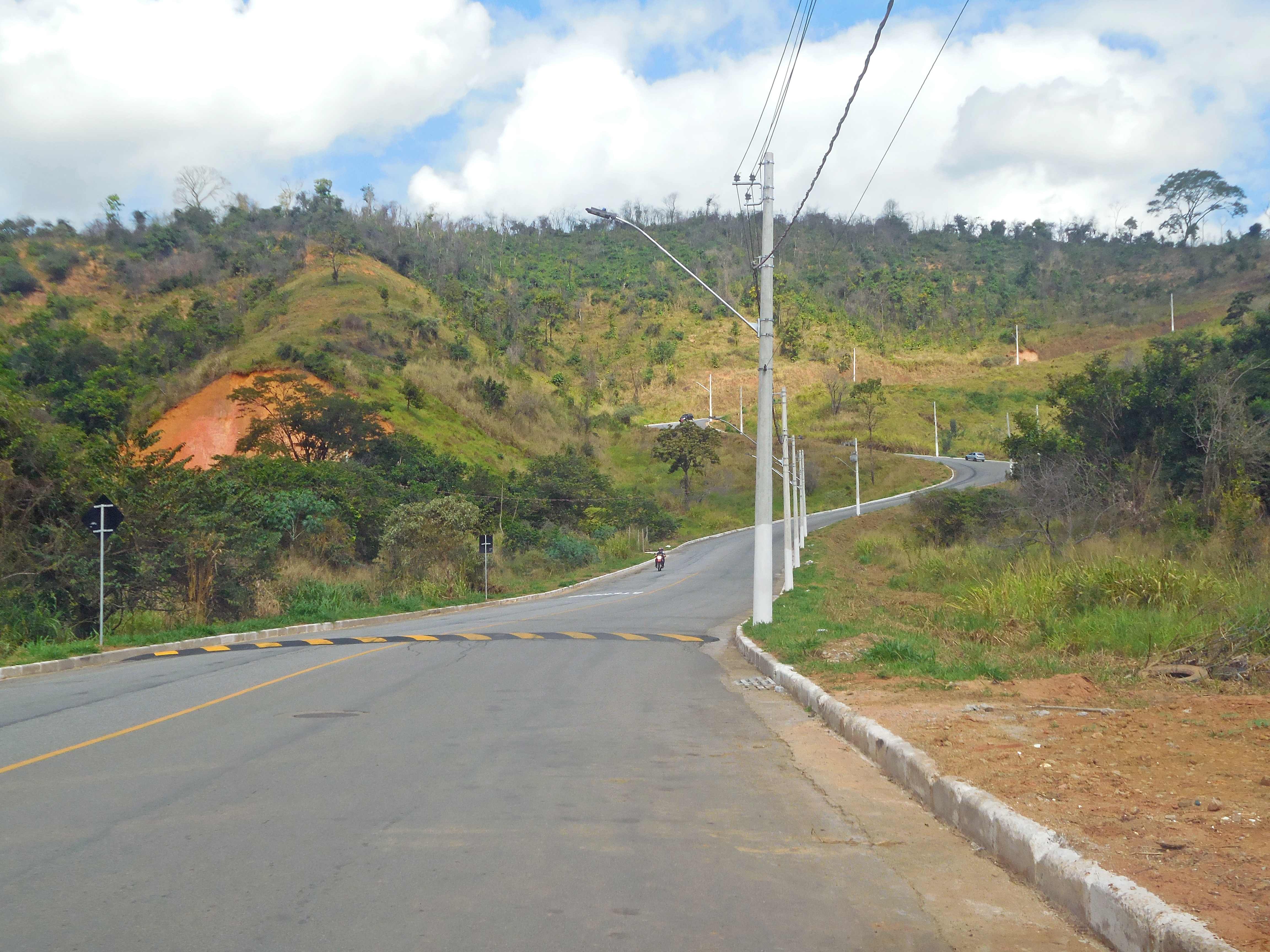 Ascent in the Maanaim Avenue, in Coronel Fabriciano, Minas Gerais, Brazil.